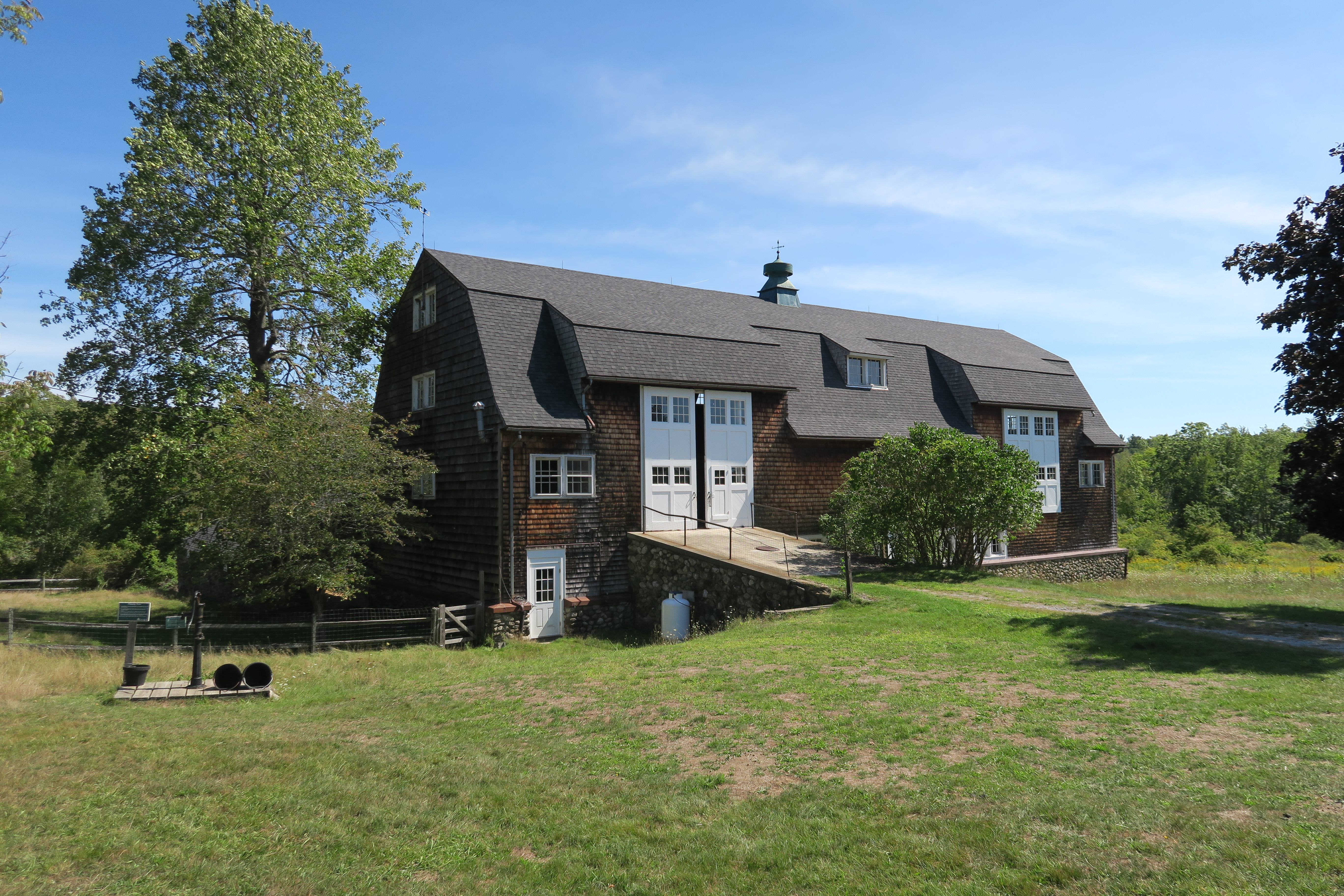 Barn, Wachusett Meadows Wildlife Sanctuary, Princeton Massachusetts